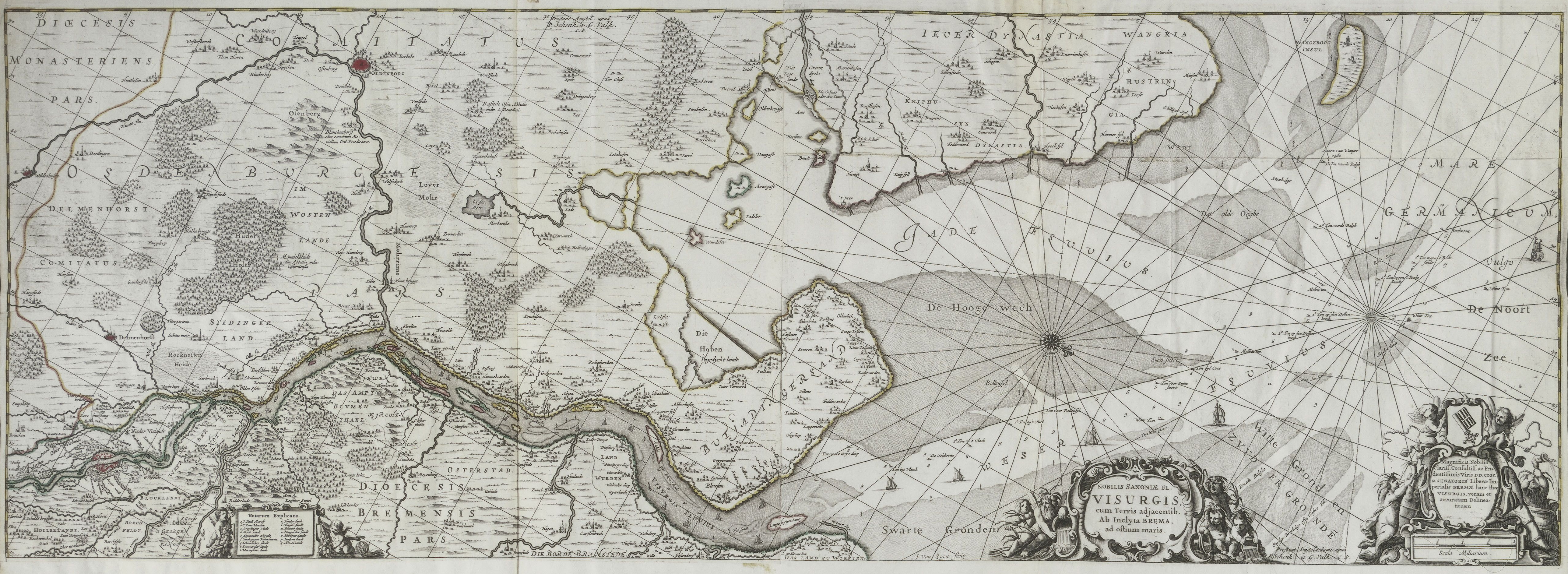 Original title: NOBILIS SAXONIÆ FL. VISURGIS, cum Terris adjacentib. Ab Inclyta BREMA ad oſtium maris.It is a very close copy or a major relaunch (of the copper plate) by Jan van Loon of a map first edited by Matthaeus Merian the Younger and his brother Caspar Merian in 1653 as a part of their Topographia Saxoniæ inferioris, but showing the depicted region in the period between 1643 (completion of New Hobendeich) and 1648 (conversion of the Bishopric of Bremen into the Duchy of Bremen). Besides the lower part of the Weser, it shows the whole coastline of the County of Oldenburg. In many details and in the forest signatures of the merian vesion, the map resembles the New Map of the county of Oldenburg drawn in 1632 and printed in 1650 by Johann Conrad Musculus (who was employed by the earls of Oldenburg), actualized by features mapped by the same author, see eastern part of Jade Bight in 1645.Changes from the Merian to the Loon version, edited by Peter Schenk the Elder and Gerard Valck (FR, NL): Most text (names) have been renewed, but with very few changes of the spelling. The Merian version had a star of compass lines only on sea, the Loon version in addition has a north-aligned grid both on sea and on land. Forests are symbolized by crowds of single trees, now. The positions of key and scale have been changed, and a dedication plaque of the senate of Bremen city has been added. The Loon version is extended farther north, but also the Merian version shows elements of a second system of compass lines that has its center in the part of the map not included in their edition. Probably, they have used a larger map and cut off a part showing little more then sea, in order to adapt it for their folio.